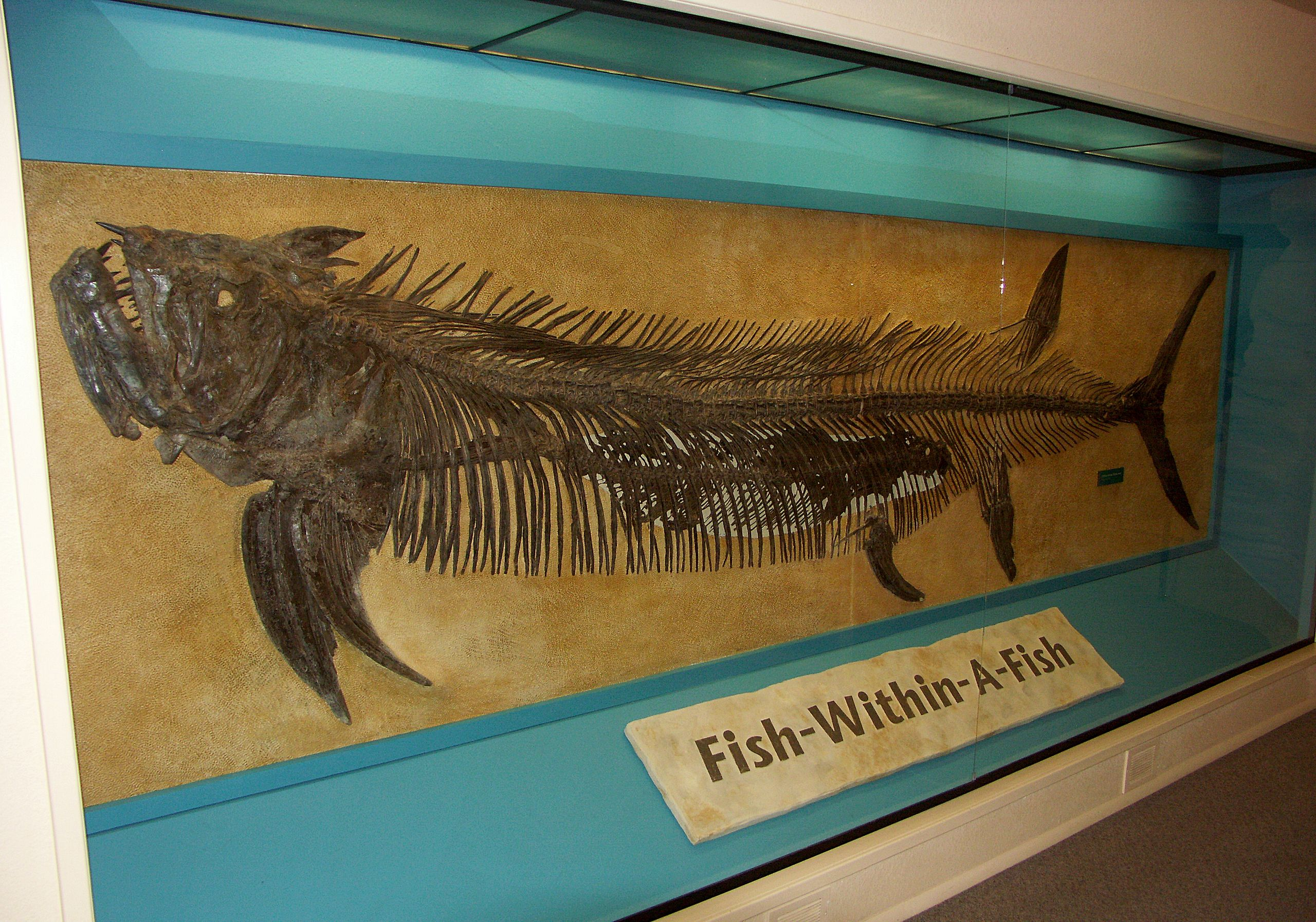 Fossils of Xiphactinus audax with a Gillicus arcuatus within its stomach. The fossils were recovered from Gove County, Kansas in 1952 by George F. Sternberg (1883–1969). The fossils are on display at the Sternberg Museum of Natural History in Hays, Kansas and described as "probably the most photographed fossil specimen in the world."